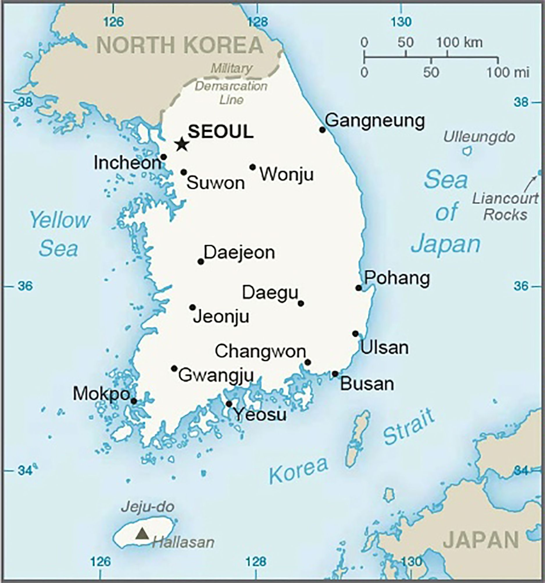 Title viewed on March 31, 2015. Available also through the Library of Congress Web site as a raster image.